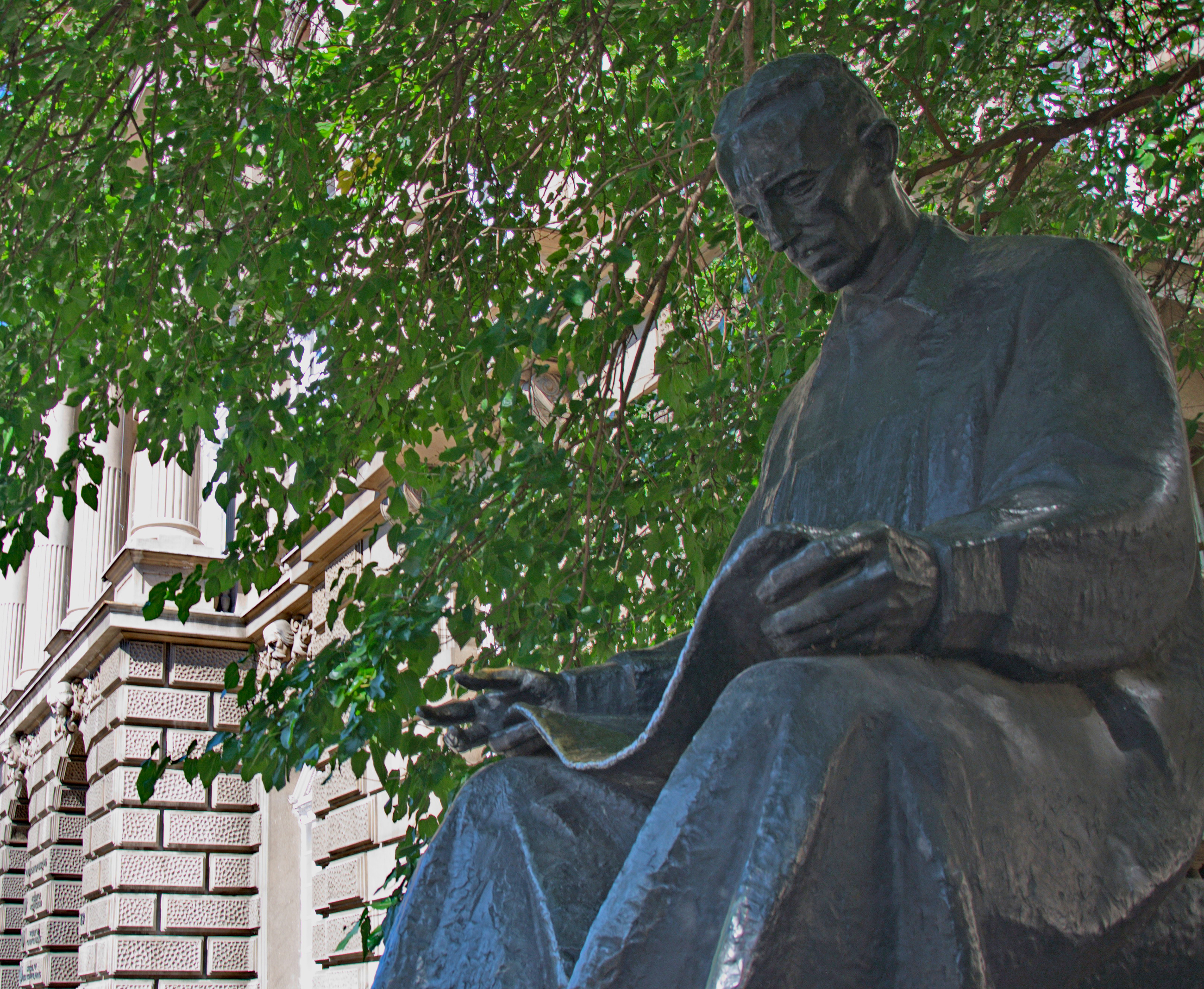 Zgrada Tehničkog fakulteta u Beogradu se nalazi u Bulevaru kralja Aleksandra 73.Zgrada Tehničkog fakulteta je građena u periodu od 1925. do 1931. godine, prema projektu arhitekata Nikole Nestorovića i Branka Tanazevića. Posle Drugog svetskog rata, prema projektu arhitekte Mihaila Radovanovića, dozidan je treći sprat. Prvobitna namena i danas je sačuvana, u zgradi su smeštena tri fakulteta iz oblasti tehničkih nauka i to je prva namenski zidana zgrada za smeštaj tehničkih fakulteta.Zgrada je izvedena kao slobodnostojeća građevina, monumentalnih je dimenzija, veoma razuđene osnove sa četiri unutrašnja dvorišta. Najveća pažnja posvećena je glavnoj fasadi, gde dominira centralni rizalit sa monumentalnim stepeništem koje vodi do trodelnog ulaza. Skulpture i reljefnu plastiku na pročelju fasade radili su akademski vajari Ilija Kolarević i Ivan Lučev, dok je autor ornamentalne plastike u veštačkom kamenu Bedrih Zeleni. Zgrada Tehničkog fakulteta ima značajne arhitektonsko-stilske i urbanističke vrednosti kao jedno od najznačajnijih dela dvojice poznatih autora, izrazit primer akademskog metodau oblikovanju i jedan od najistaknutijih objekata univerzitetskog kompleksa.